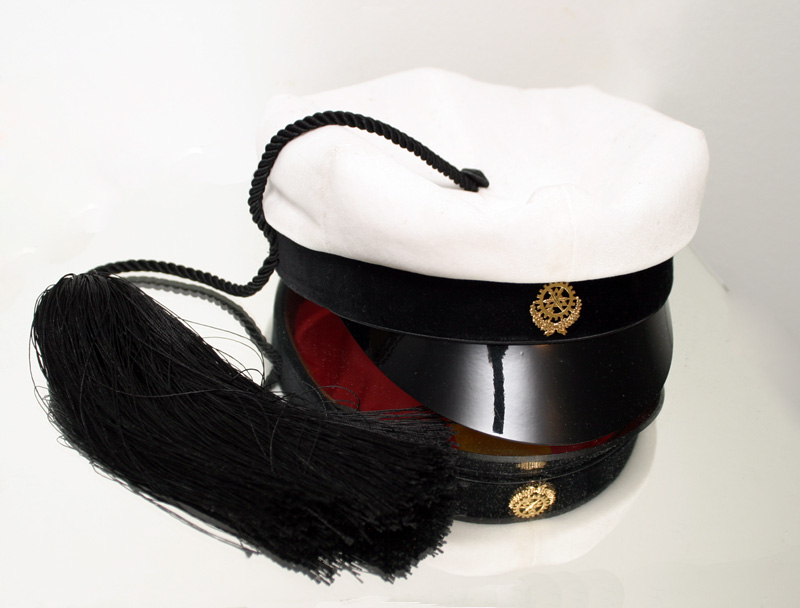 A Finnish technology students hat (Swedish-speaking student at TKK version)